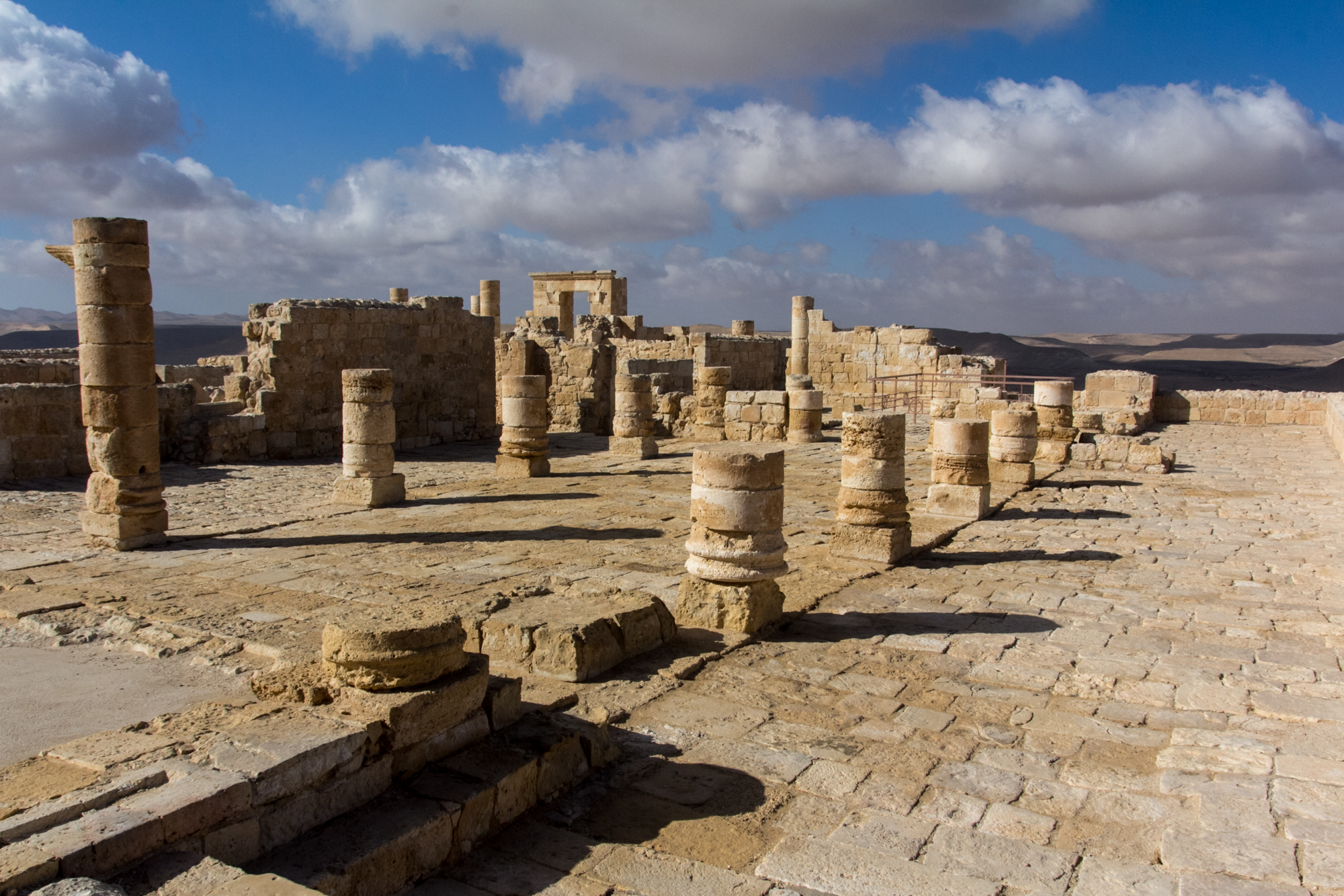 Ancient Nabatean city of Avat, Israel. Northern church.